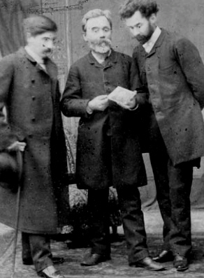 Photograph of the Romanian writers Alexandru Vlahuţă, Vasile Alexandrescu Urechia, Barbu Ştefănescu Delavrancea (from left to right)